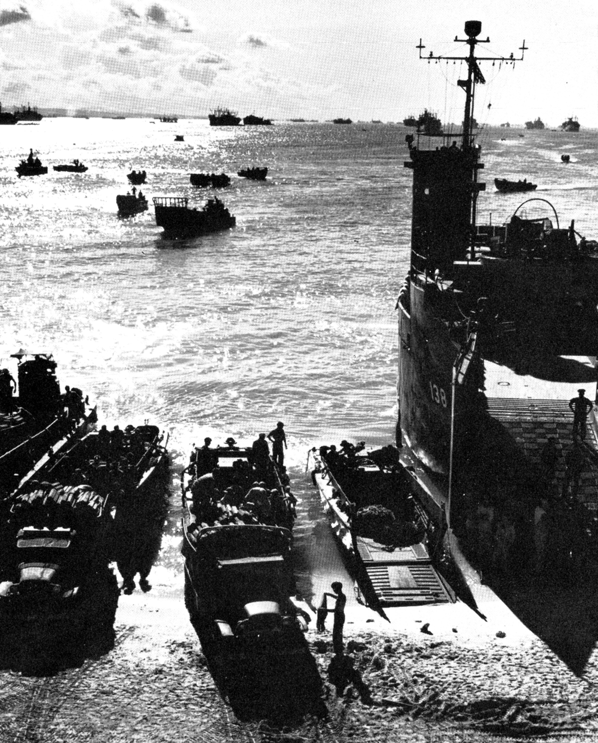 Seeadler Harbour in Admiralty Group after succesful attack